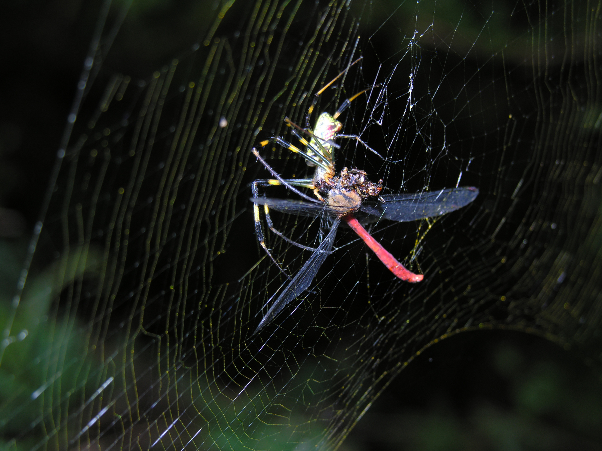 Nephila clavata Eating dragonfly